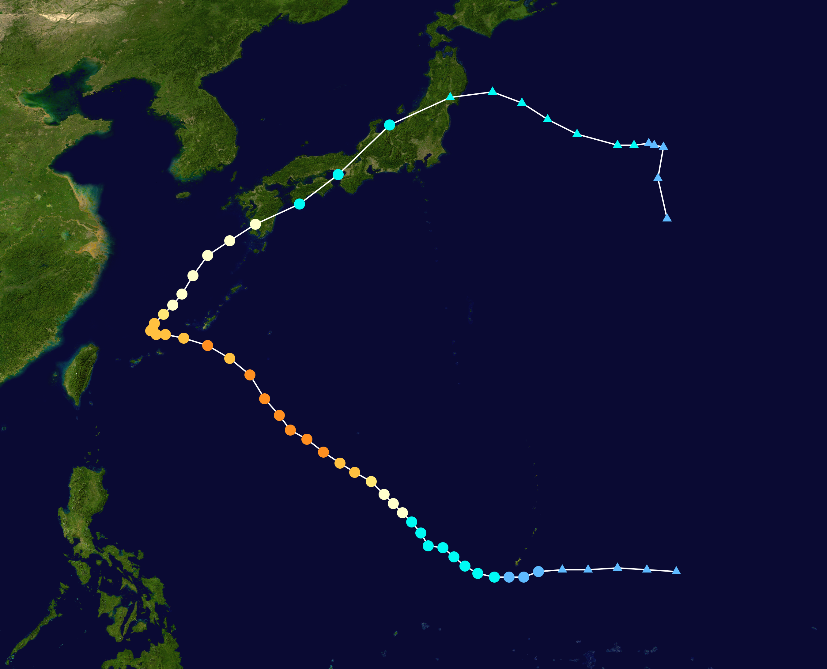 Typhoon Meari (2004) track. Uses the color scheme from the Saffir-Simpson Hurricane Scale.